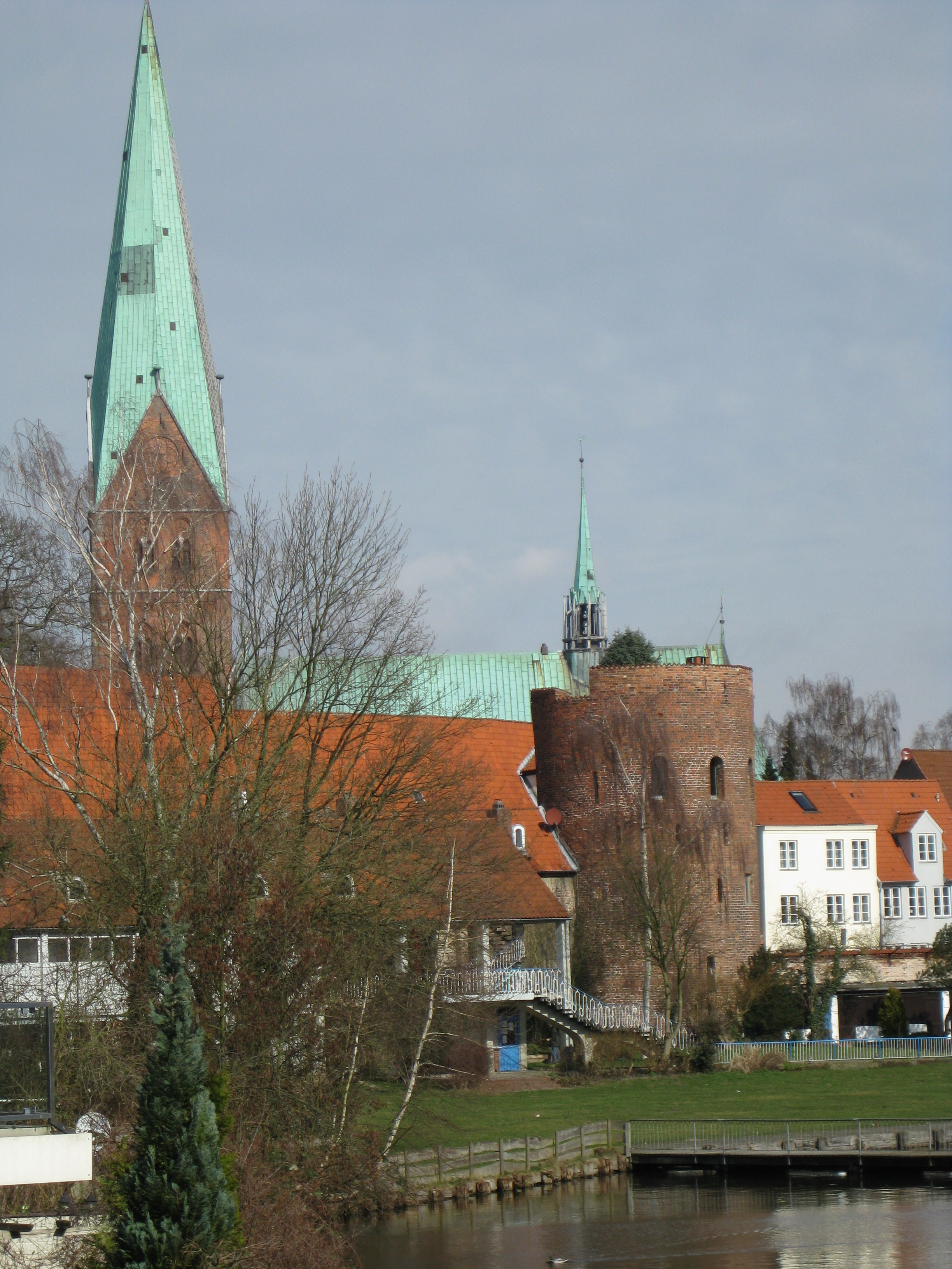 View from the inner Mill-Bridge across Krähenteich towards city wall and tower of St. Ägidien church.